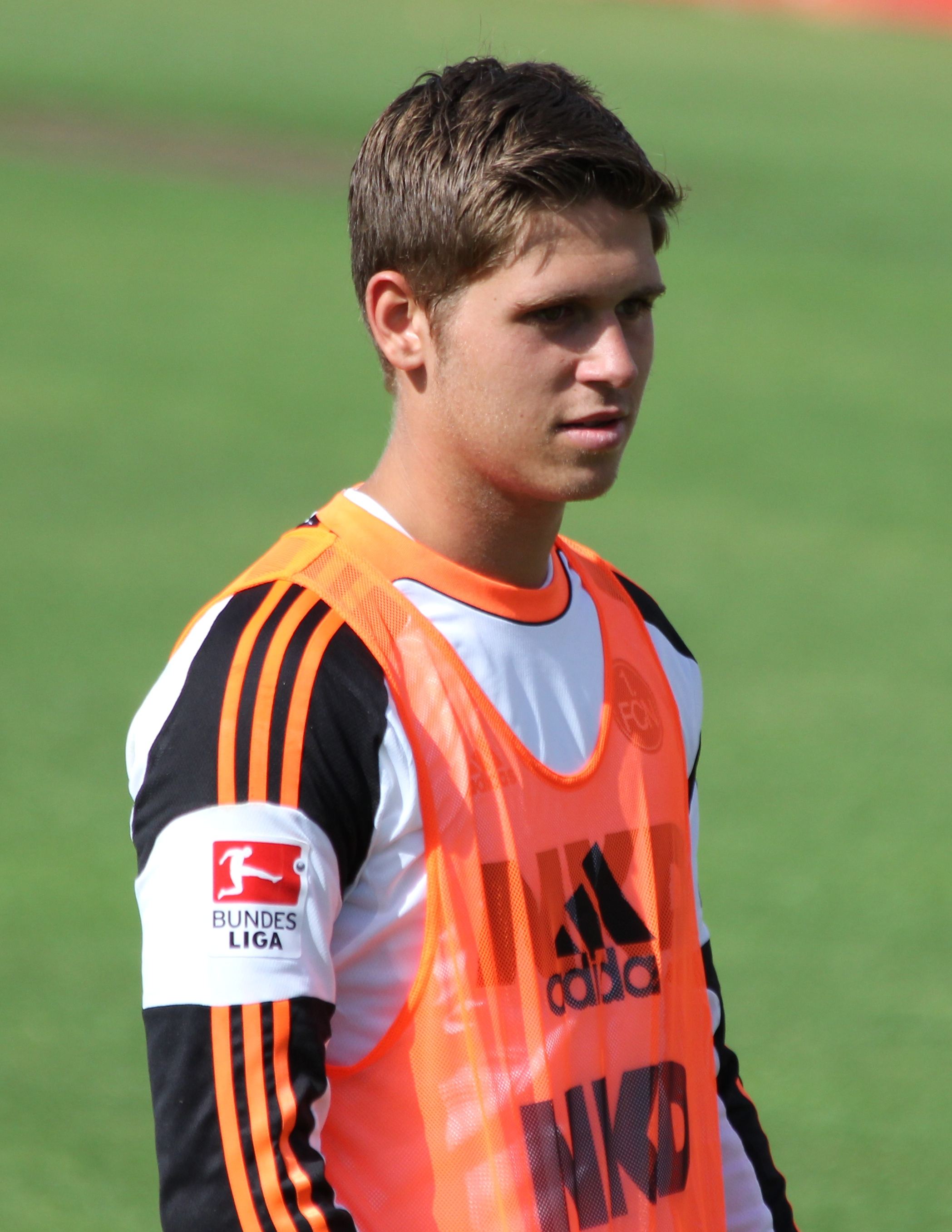 Patrick Rakovsky, football player for German side 1. FC Nürnberg, 2012/13 season, first training session